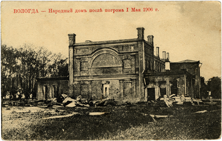 People's house in Vologda after the pogrom of May 1, 1906